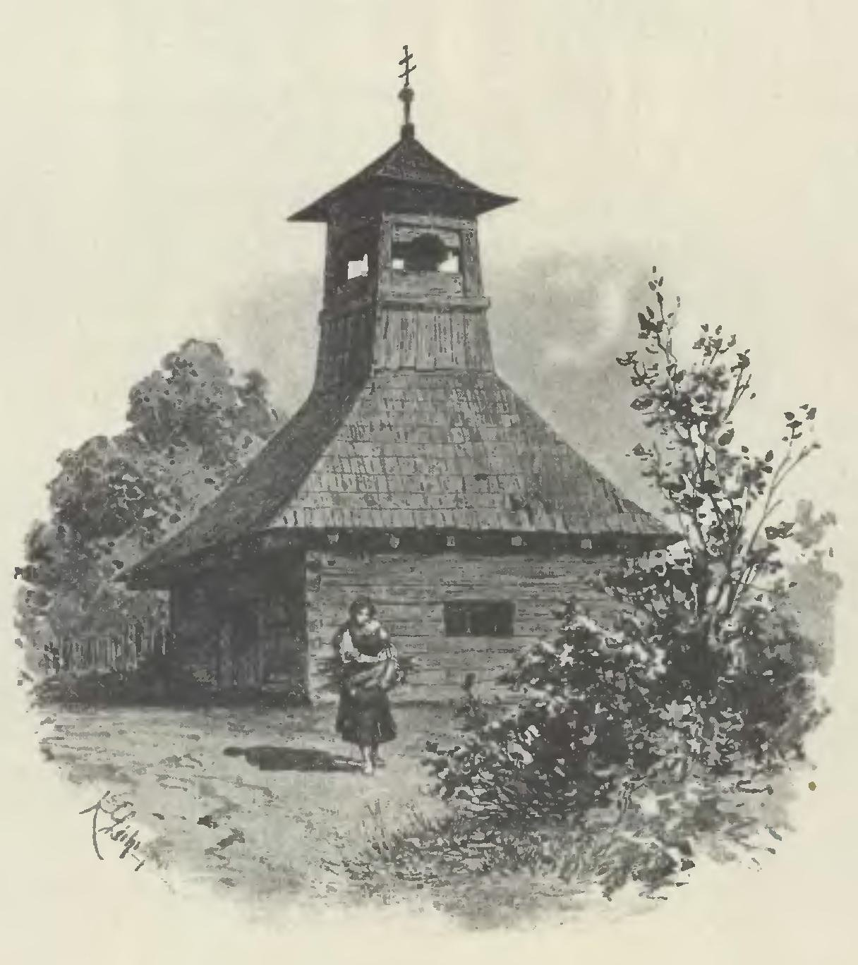 View of a wooden belfry in Lichkov in present-day Czech Republic around 1880. The belfry, that stood on a school yard, was also used as a warehouse of firefighting equipment and was pulled down in 1891.[1]